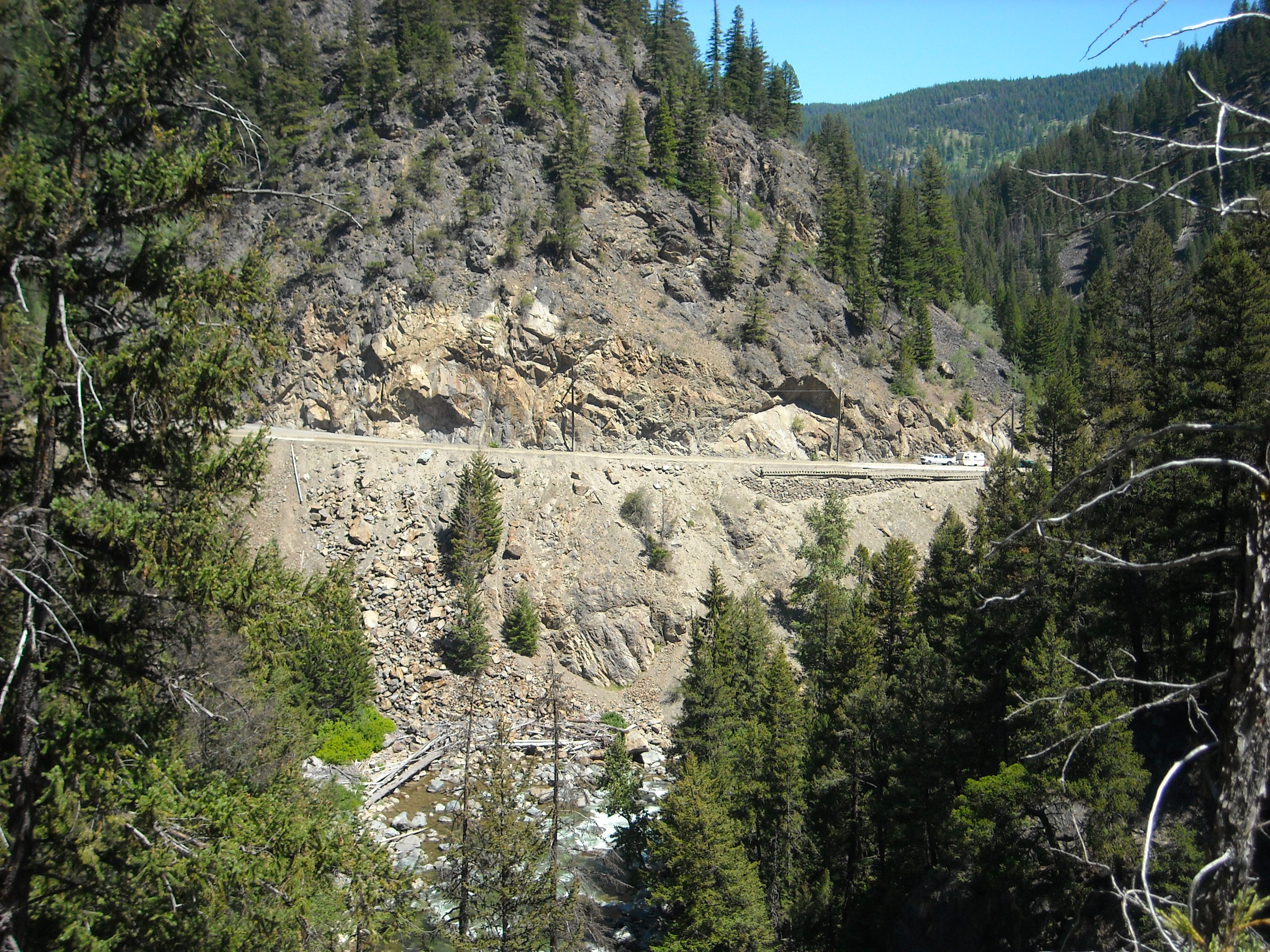 Highway 3 as it once again follows the Similkameen River closely, seen from the cliffs above Similkameen Falls. The falls are directly below this image (if you know what I mean).